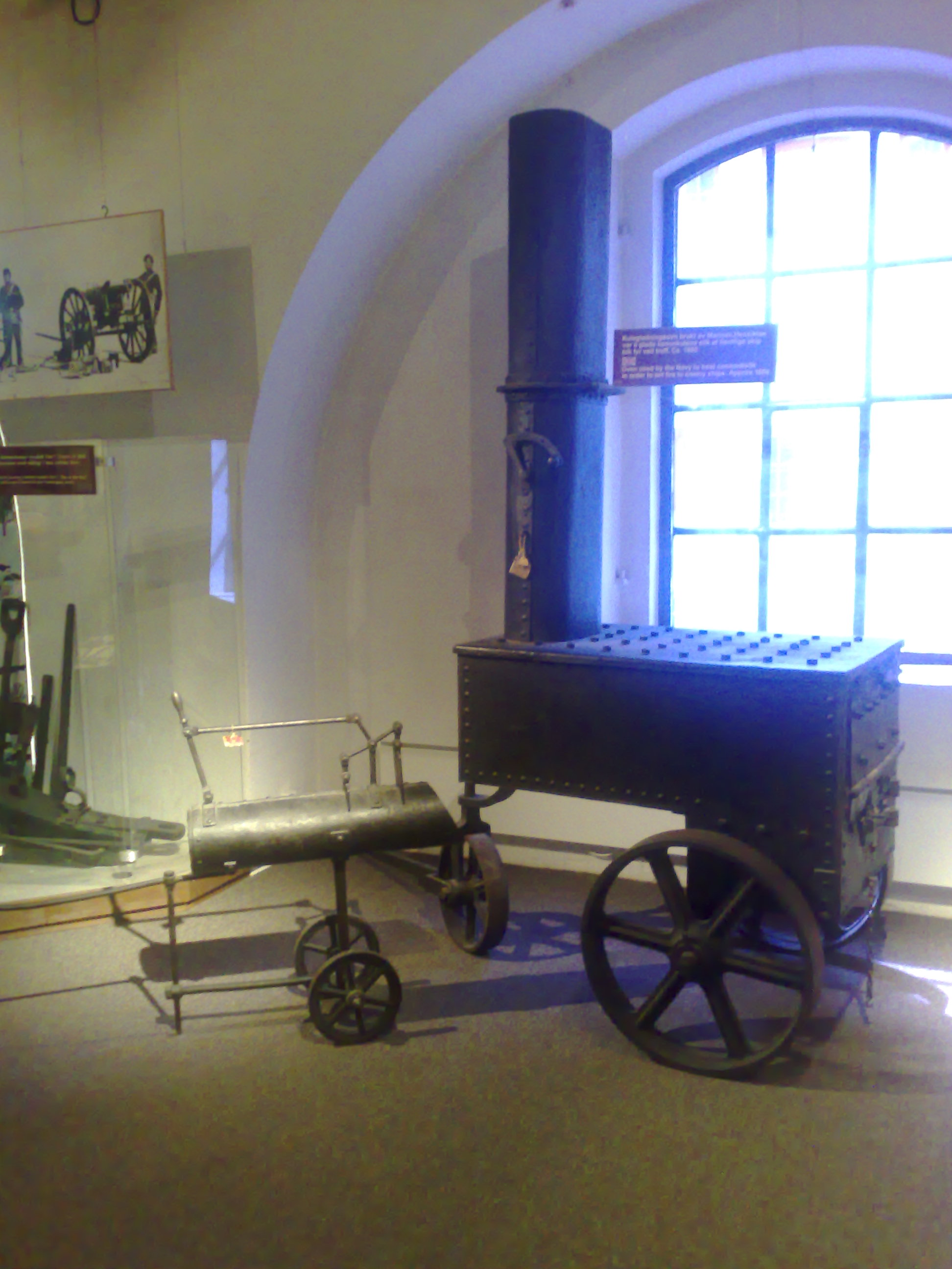 A mobile wagon used by the Norwegian Navy to heat shots. Ca. 1860